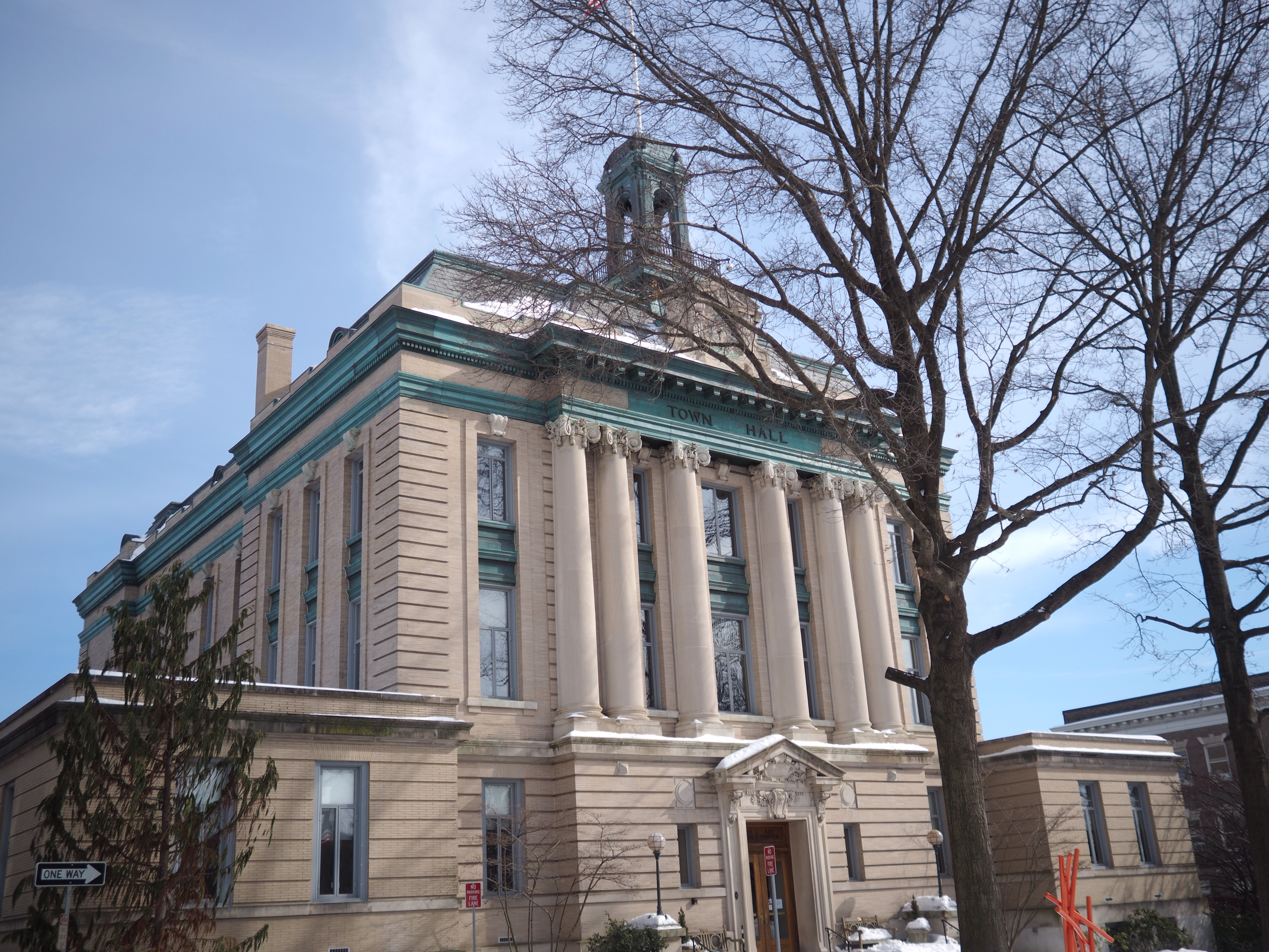 Old Town Hall (serving as a senior center), Greenwich Avenue, Greenwich, Connecticut.